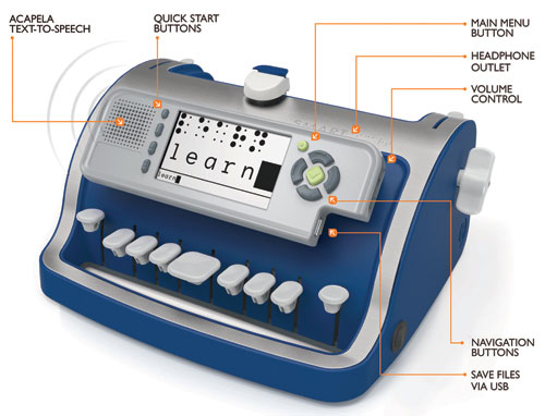 The Perkins SMART Brailler combines the Next Generation v2.0 model with modern audio/video technology (a speaker and a digital screen). The added accessibility allows sighted teachers to see what their students are typing in braille; it allows students who are blind or partially sighted to hear what they're typing. All of these modifications were made in an effort to further improve braille literacy for blind, visually impaired and sighted readers alike.